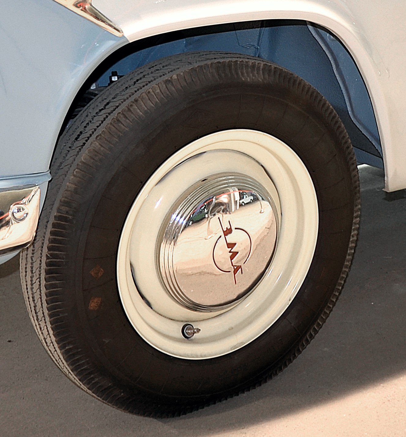 Tire of a Moskvitch 407 car (model M-57, based on the tread pattern), cropped from a photo found on Commons.